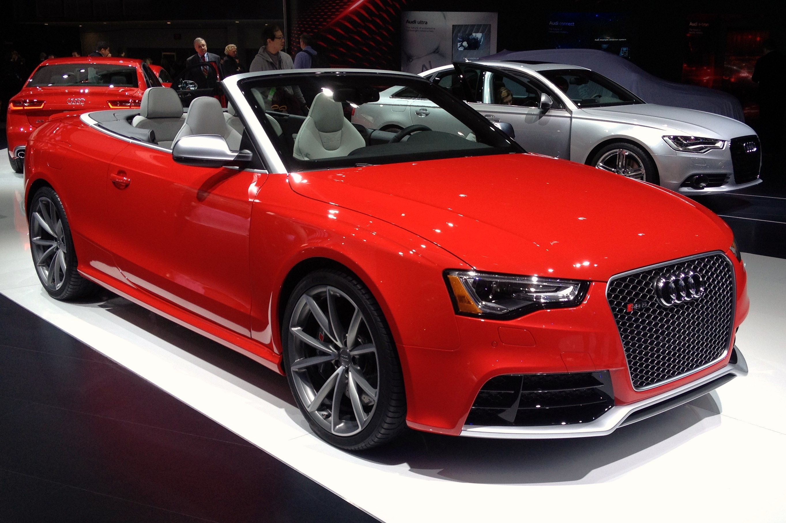 2013 North American International Auto Show Detroit, Michigan